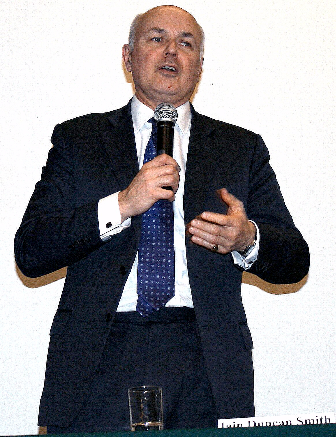 Iain Duncan Smith-London March 2010